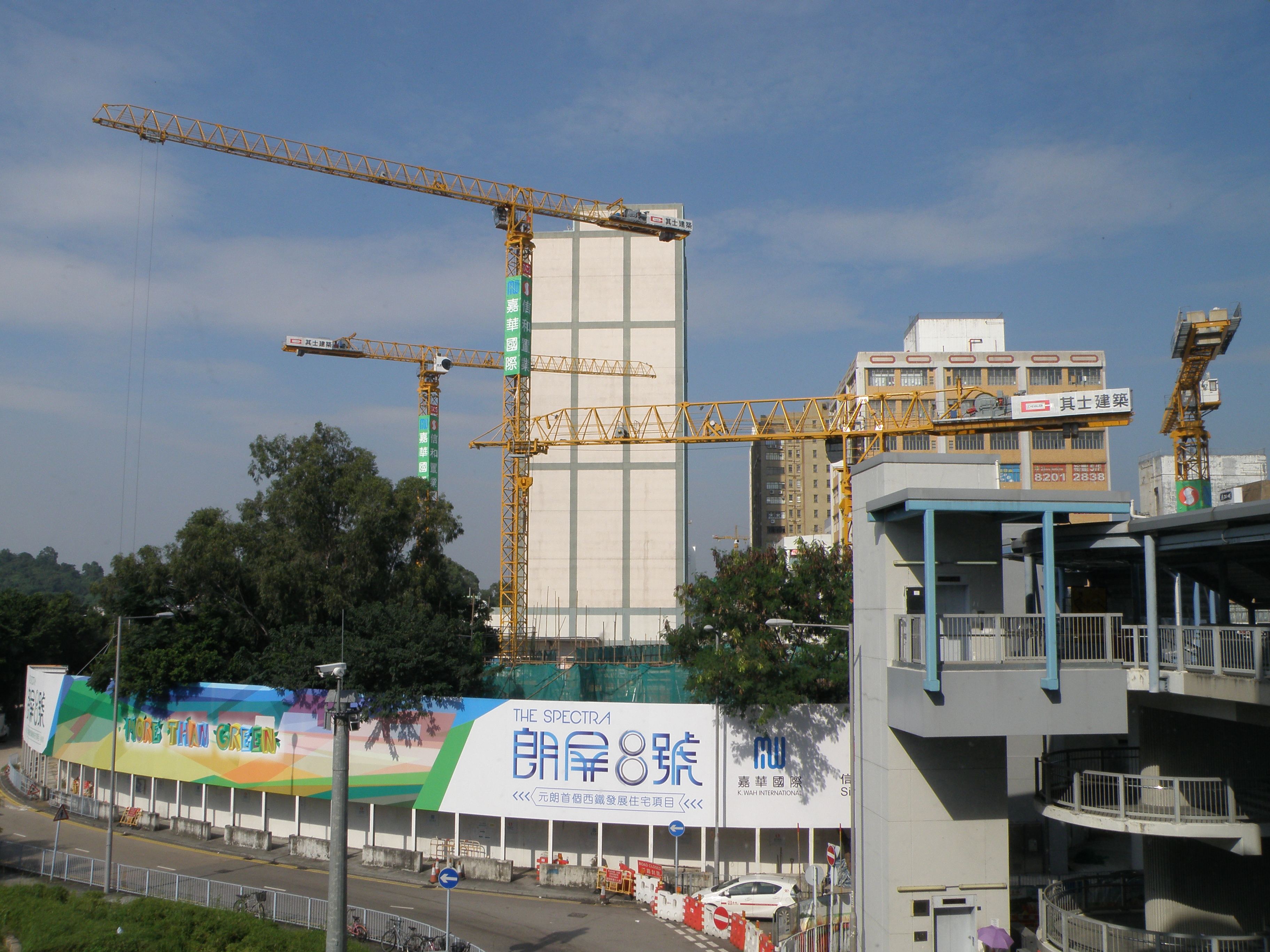 The Spectra in Long Ping, Hong Kong.